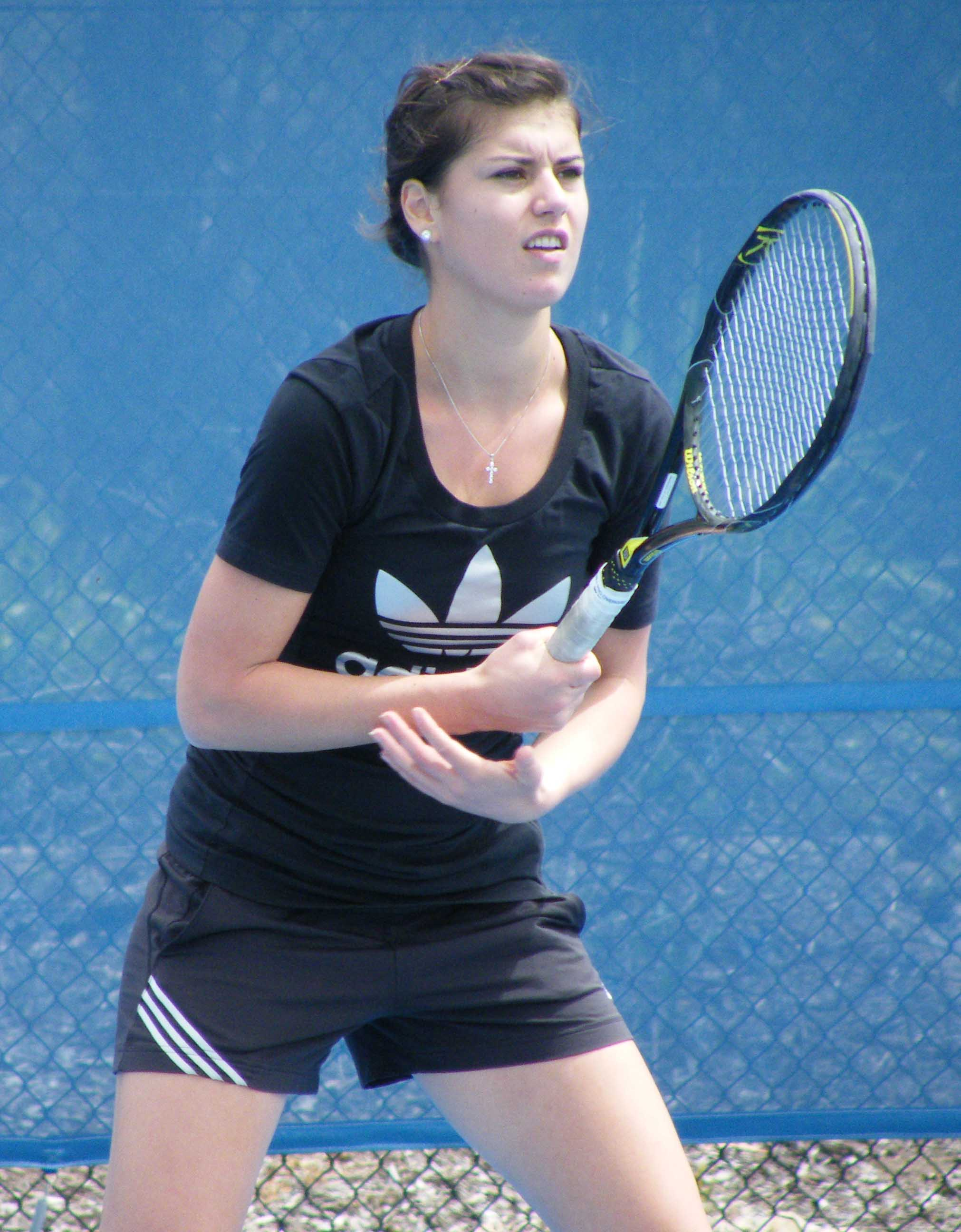 Sorana Cirstea at NSW Open tennis in January 2009.